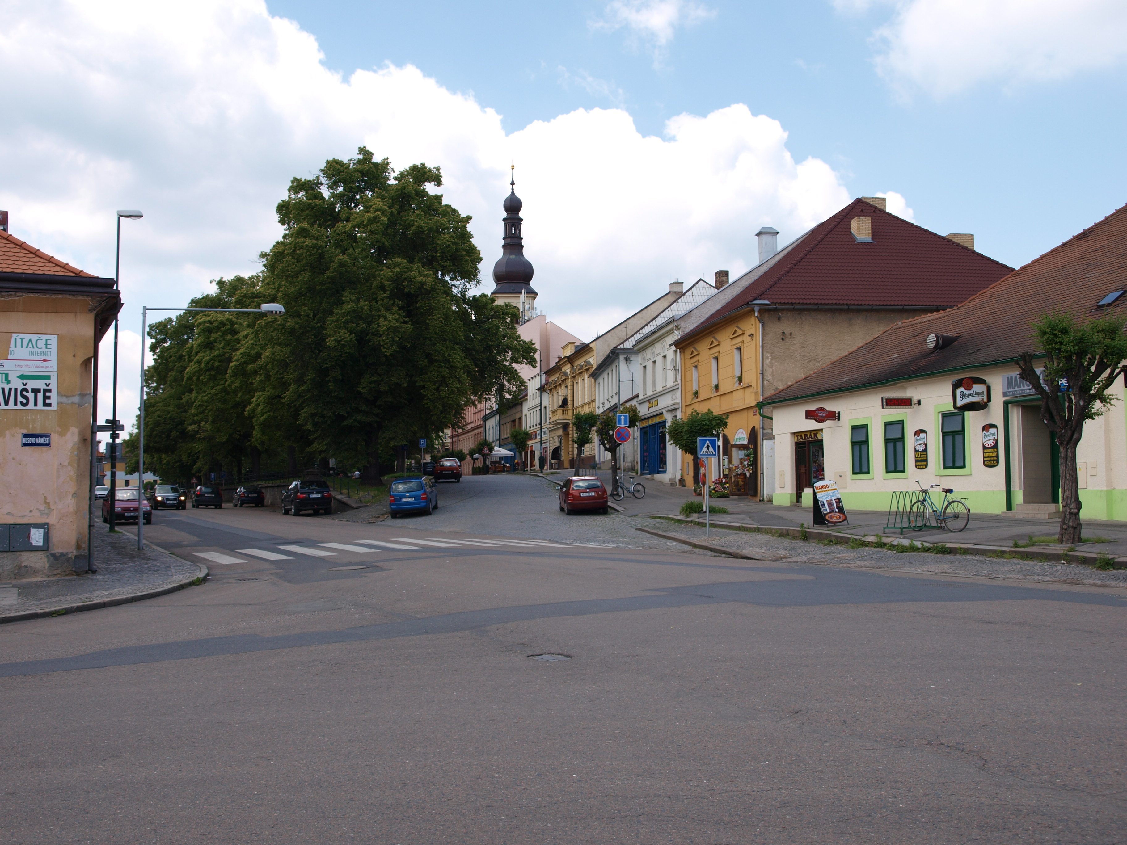 Bedřich Hrozný square from Husovo square, Lysá nad Labem, Central Bohemian Region